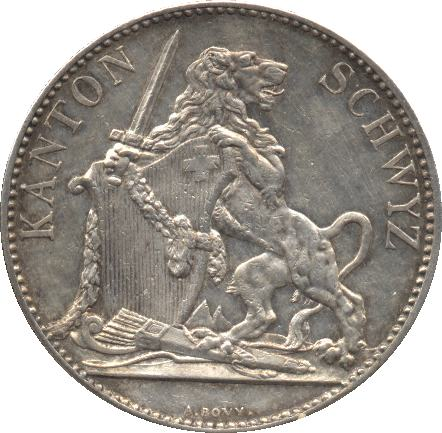 1867 Shooting Thaler Reverse